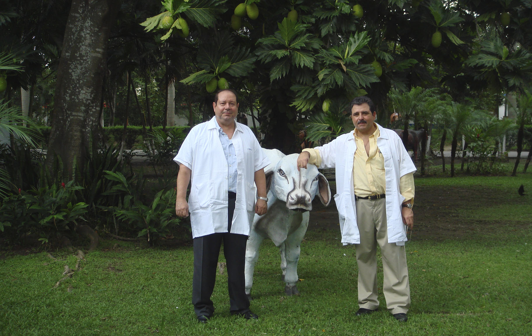 First honduran UHT Plant Inaguration, Luis Kafie Stefan, Elena Kafie Larach, Schucrie Kafie Larach